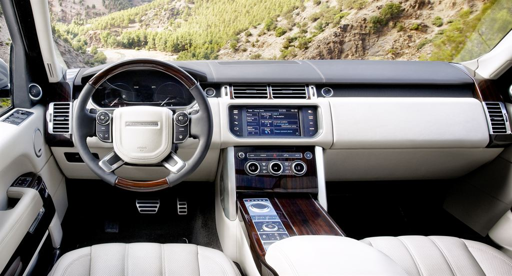 All-New Range Rover - Location Shot